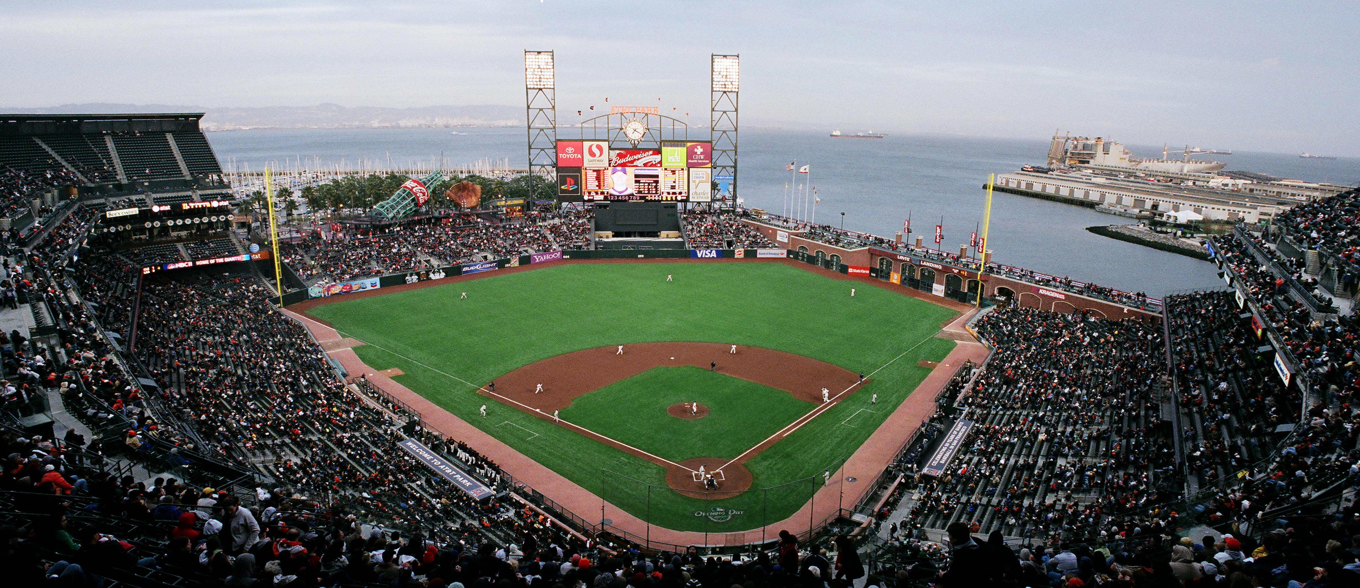 AT&T Park during the Padres-Giants game on April 8, 2008.